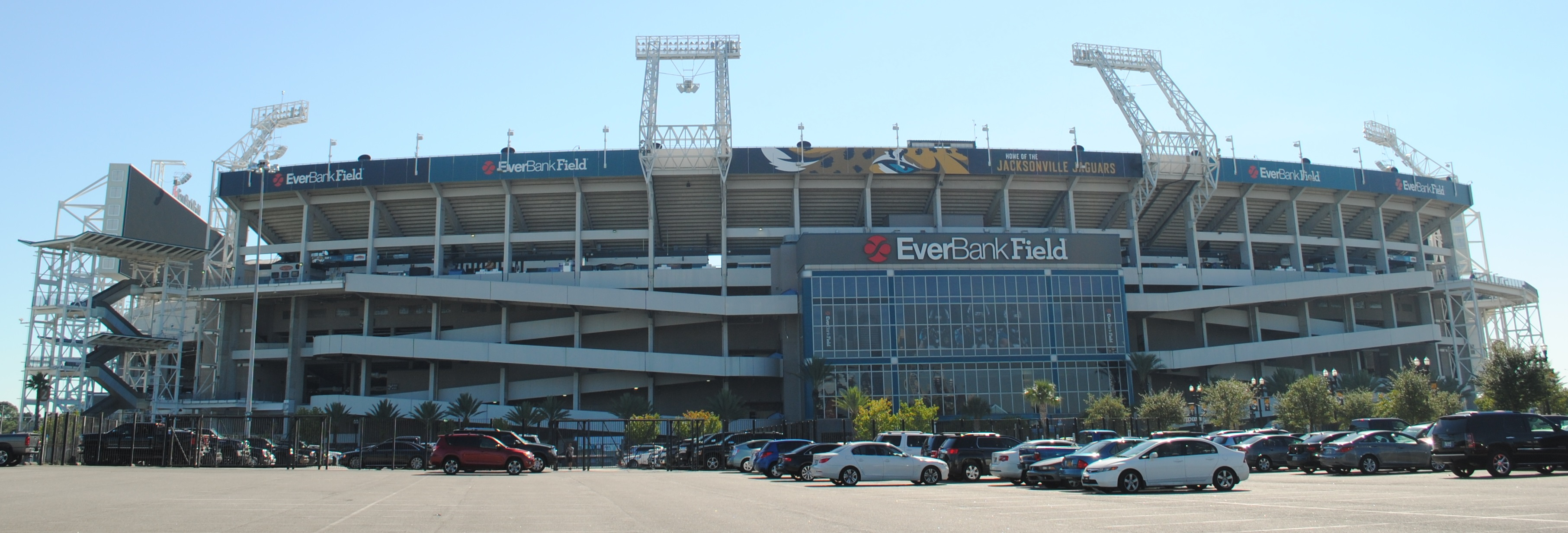 EverBank Field